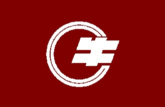 Flag of Ushiku Ibaraki